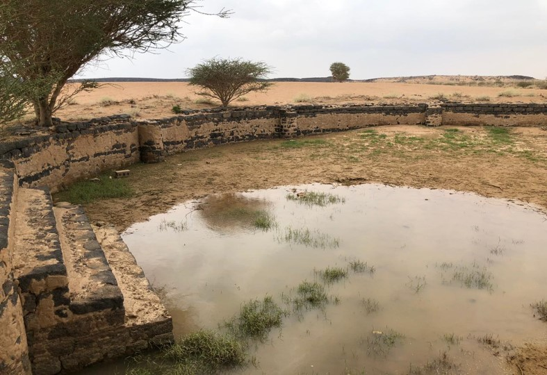 اثار درب زبيدة